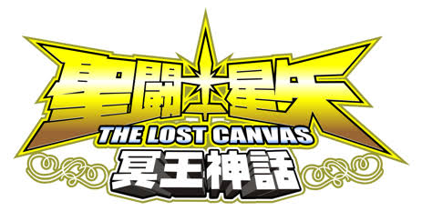 The Lost Canvas